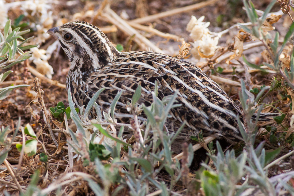 Stubble Quail Coturnix pectoralis, South Australia